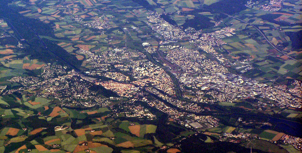 Aerial view of Landshut, Bavaria, Germany.